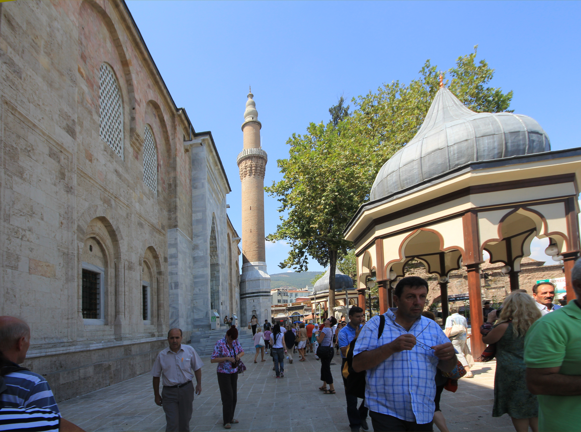 Entrance and minaret of the mosque Bursa Grand Mosque in Bursa city, Turkey